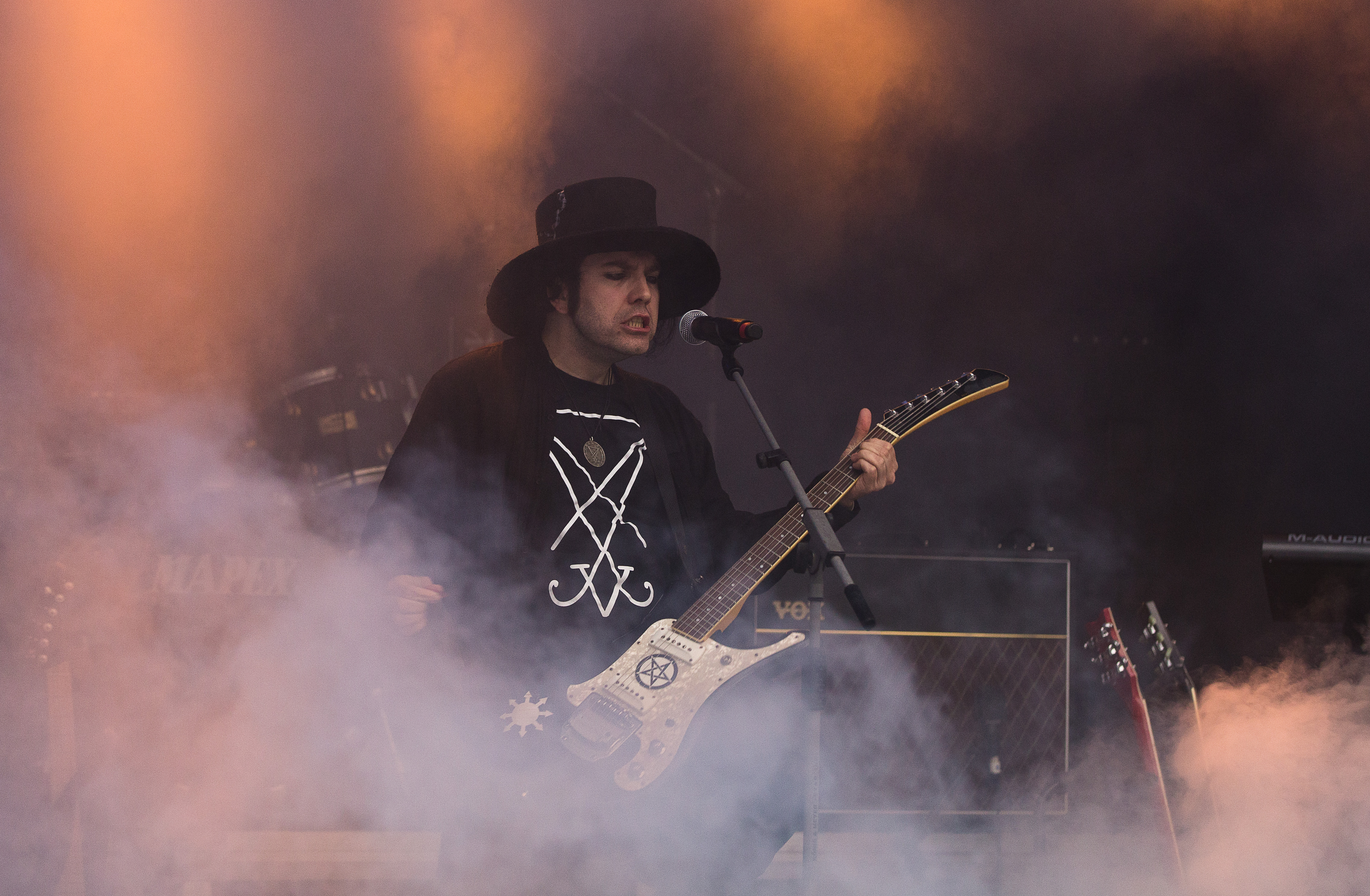 The Austrian alternative rock band SWhispers in the Shadow at the Nocturnal Culture Night 10 2015 in Deutzen/Germany.